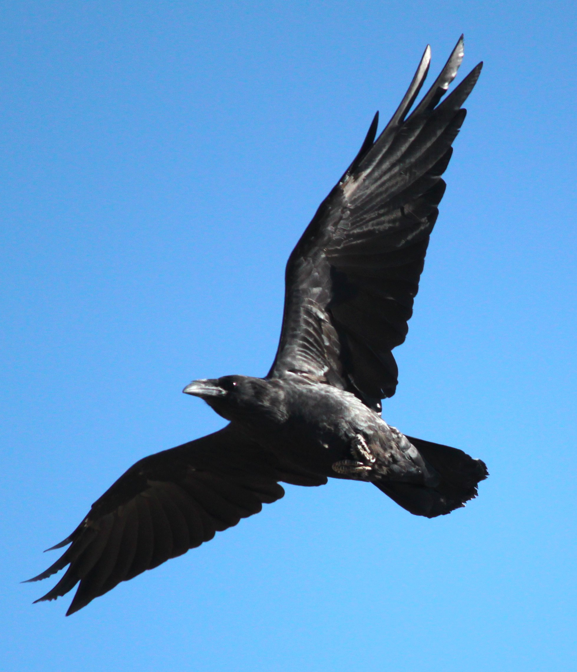 Chihuahuan Raven (Corvus cryptoleucus) in flight, Sonora Desert Museum.